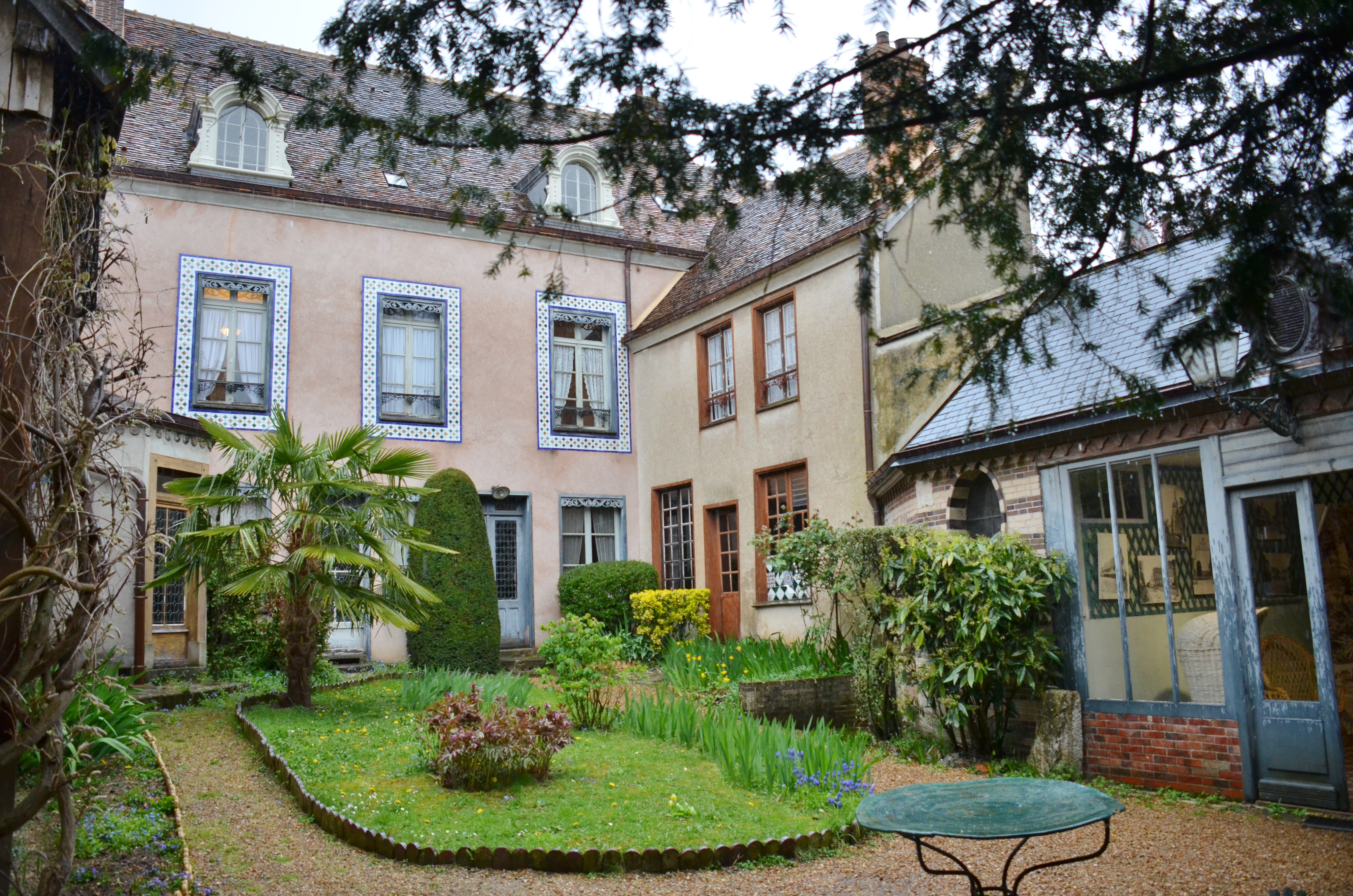 Aunt Léonie's house in Illiers-Combray